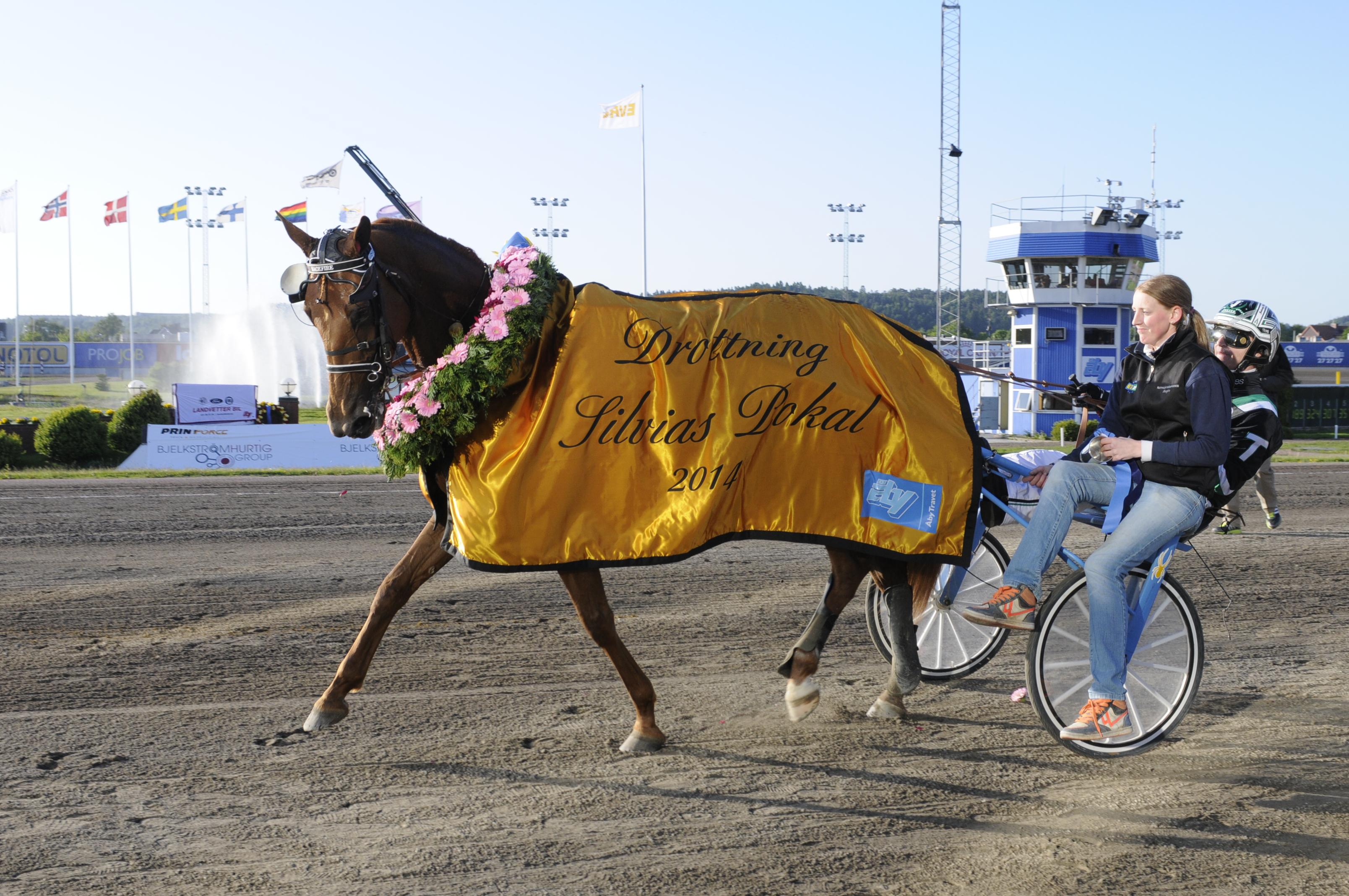 Backfire and driver Johnny Takter after winning Drottning Silvias Pokal at Åbytravet in May 2014.